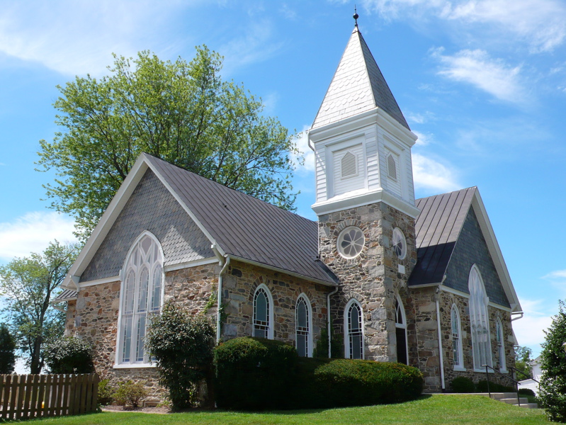 The Harmony United Methodist Church in Hamilton, Va. A beautiful building in this small Virginia town.